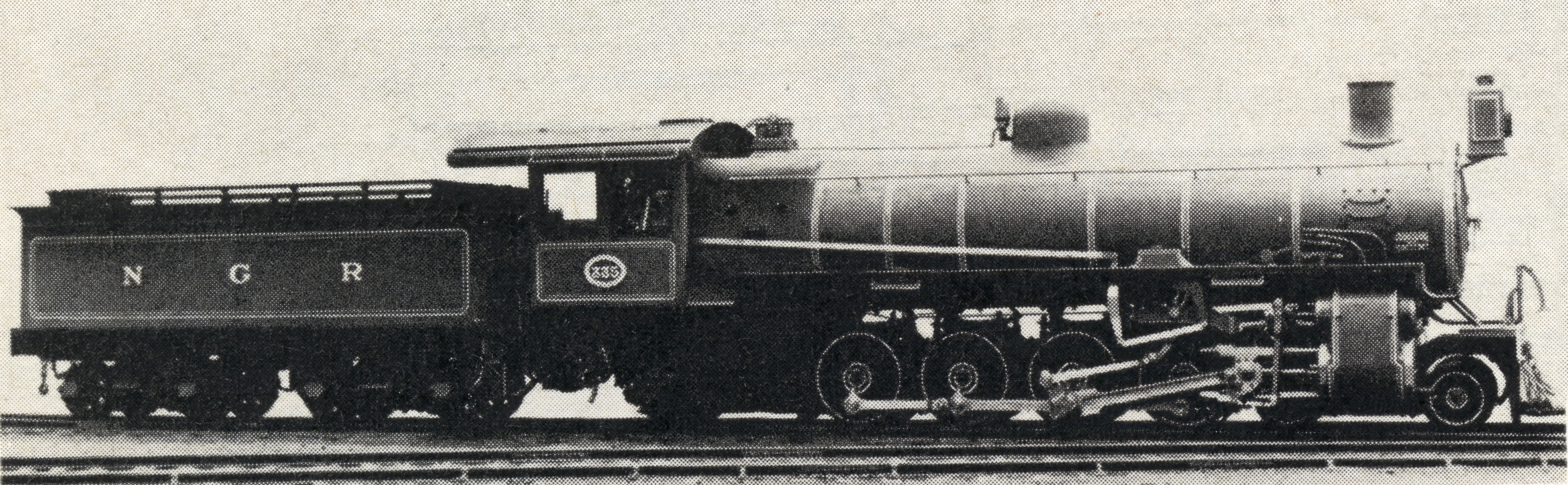 SAR Class 3A no. 1476 (4-8-2) Ex NGR no. 335 Builder's works number: ALCO 46176/1909